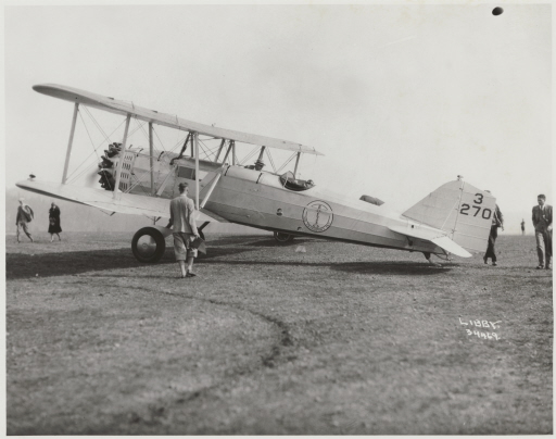 Airplanes. National Air Races. Boeing Air Transport Inc. 23, September 1927.